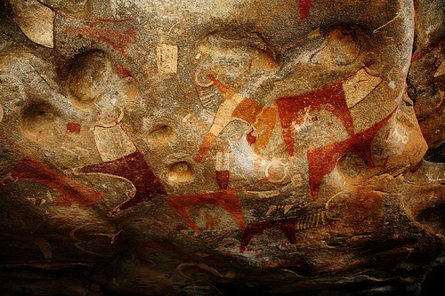 Some of the many paintings inside the Laas Geel caves, near Hargeisa in Somaliland/Somalia